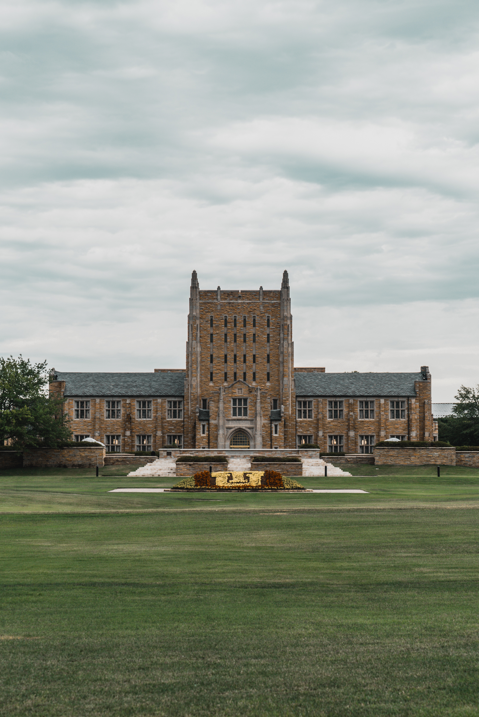 View of McFarlin Library across the Dietler Commons at the University of Tulsa in Tulsa, Oklahoma.